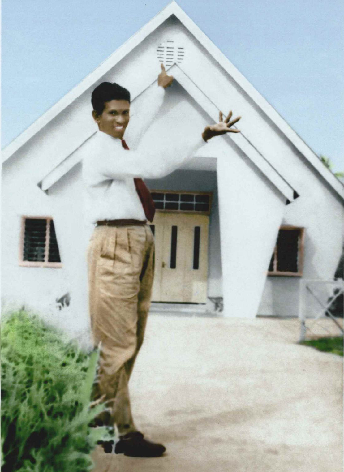 Pastor Samuthram pointing at Church completion